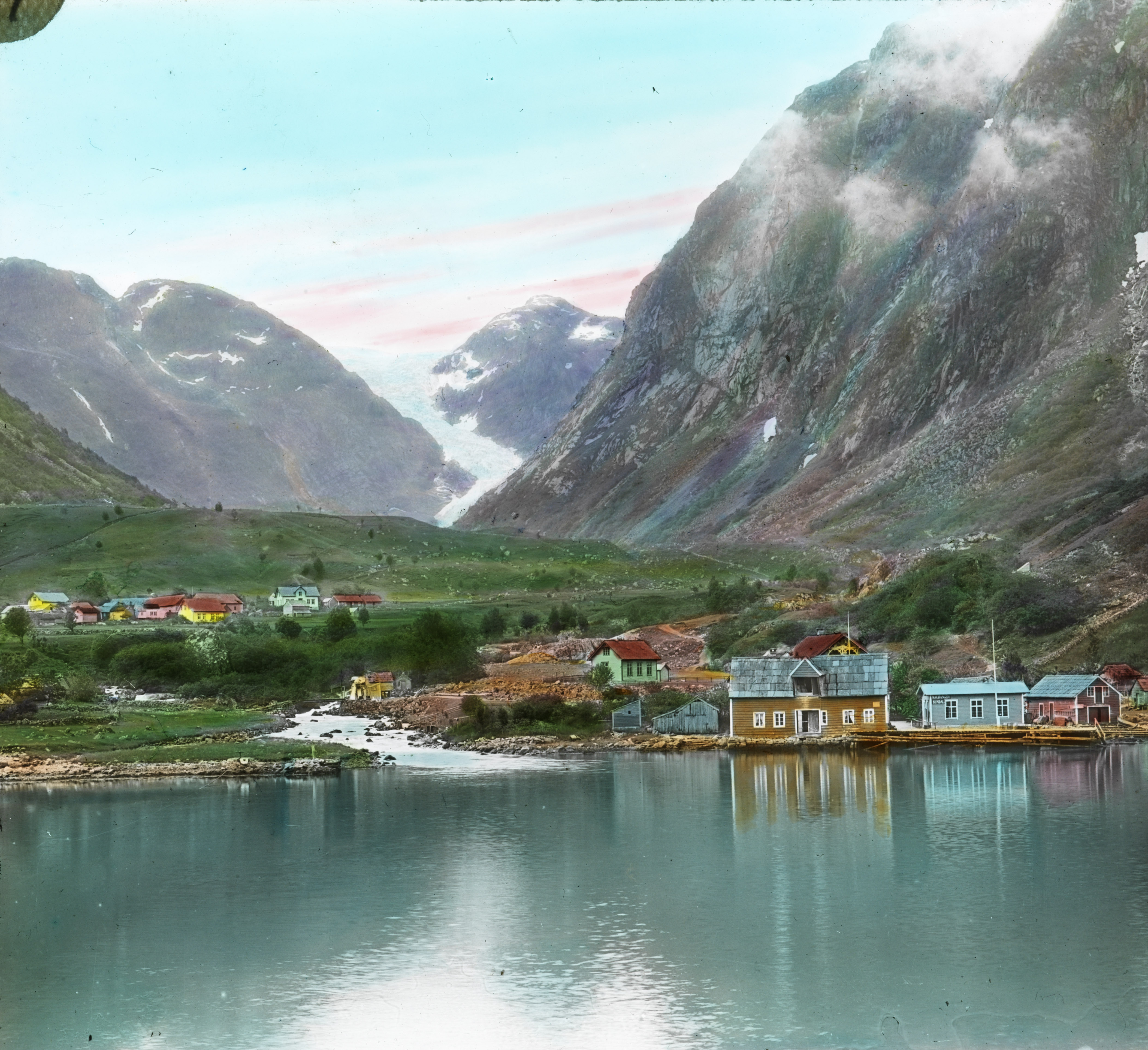 SFFf-1992078.0042 Sundal, Mauranger in Hardanger. In the late 1800s/early 1900s a lot of tourists came to Sundal in order to visit the Bondhusbreen glacier.